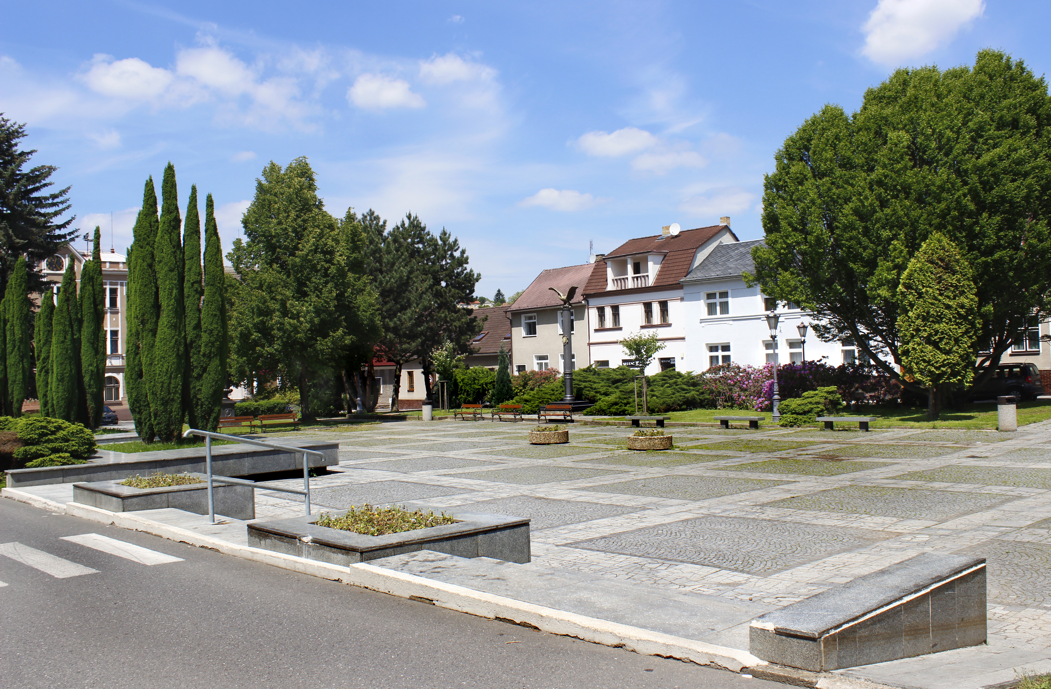 Náměstí Míru (square) in Komárov, Czech Republic